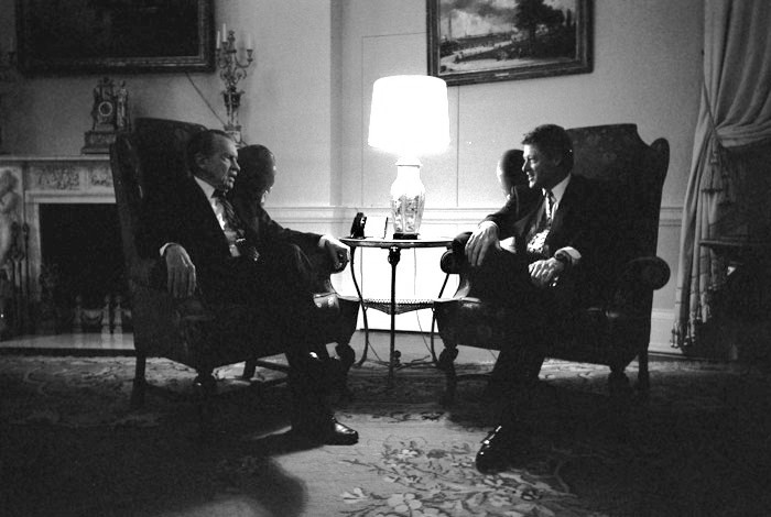 Former President Richard Nixon visits with President Bill Clinton in the family quarters of the White House, March 8, 1993.